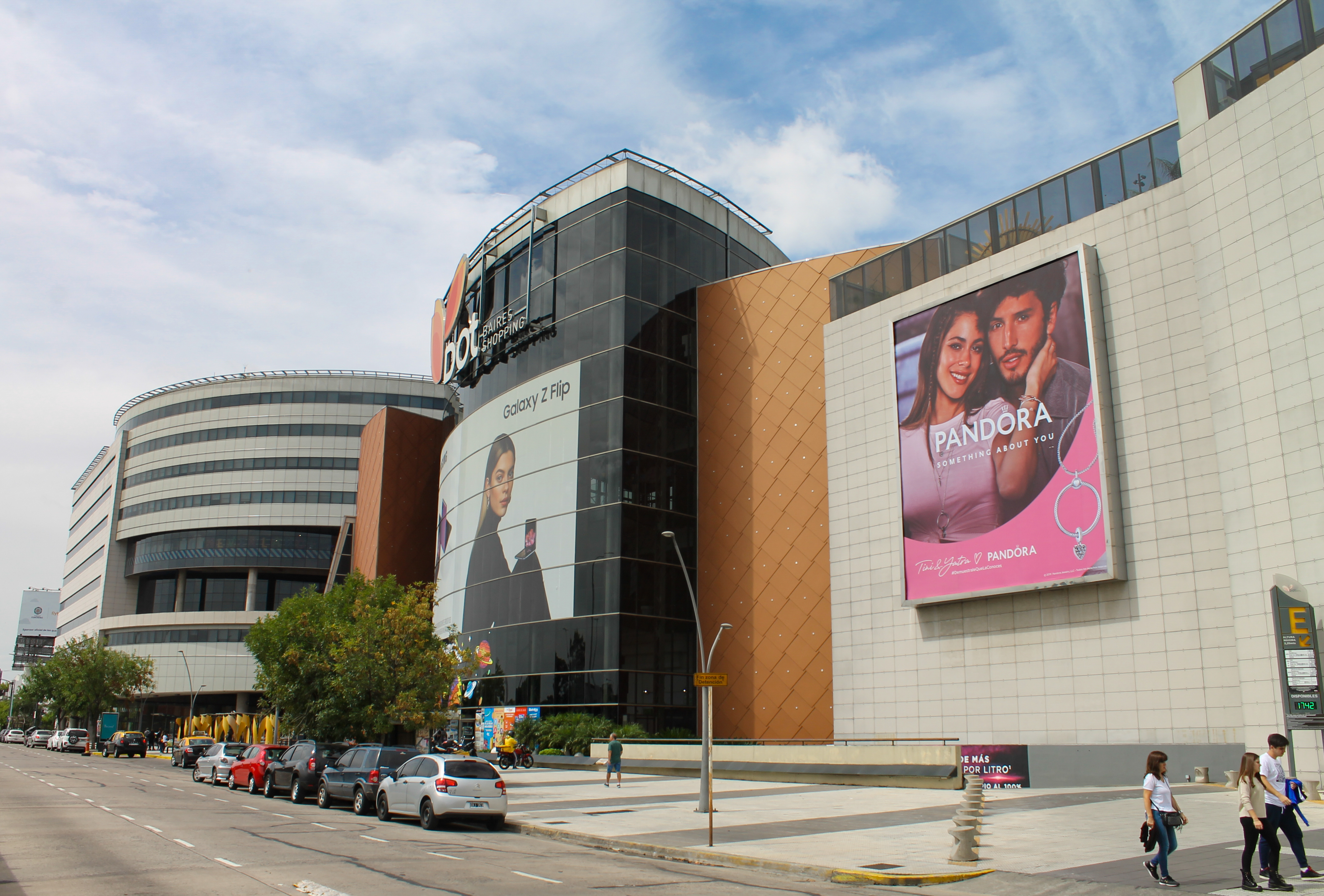 Dot Baires Shopping mall in Saavedra, Buenos Aires